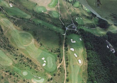 Hencse, Hungary, aerialphotography